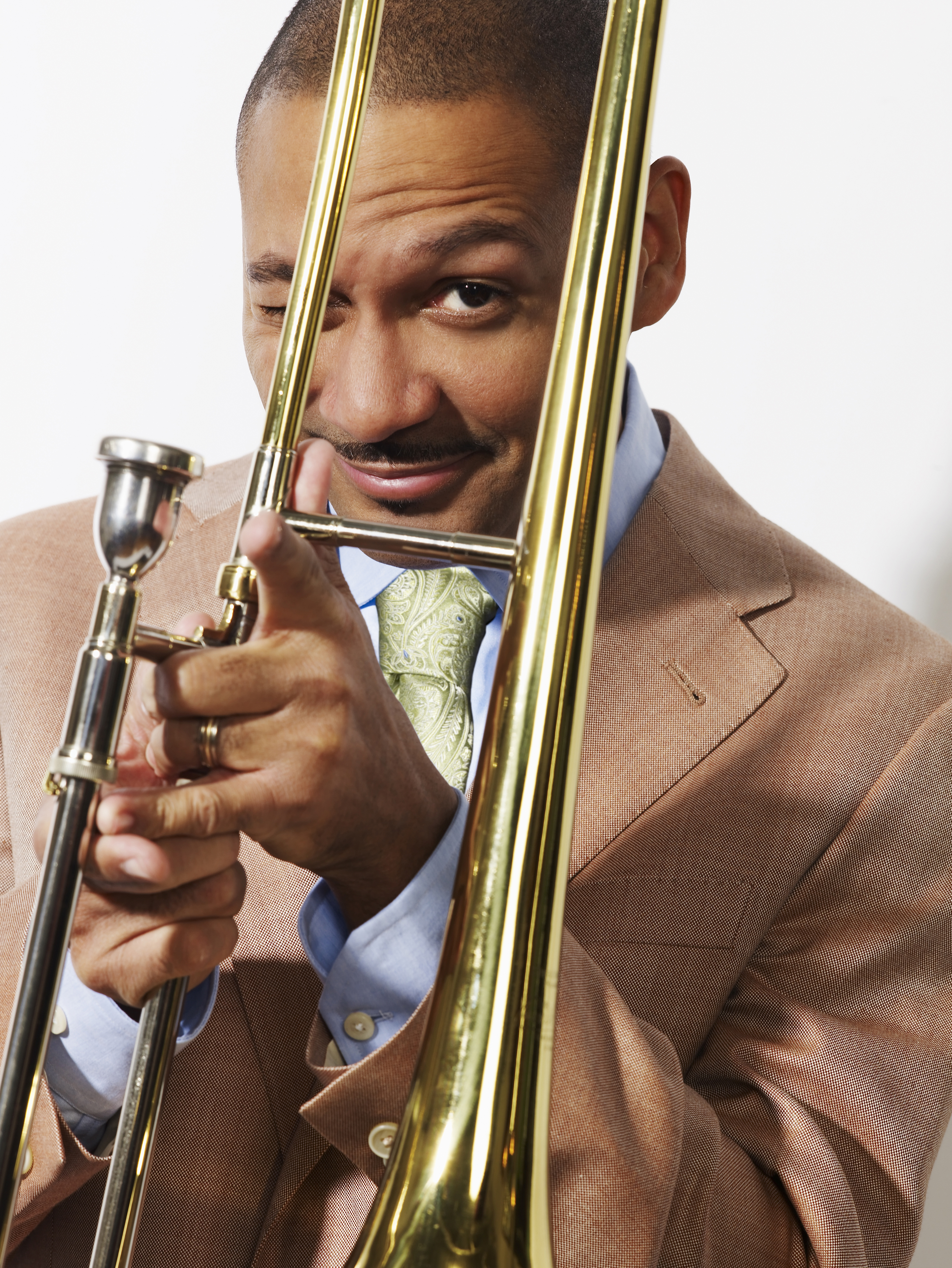 Delfeayo Marsalis - trombonist, composer, producer, educator and 2011 NEA Jazz Masters Award recipient.